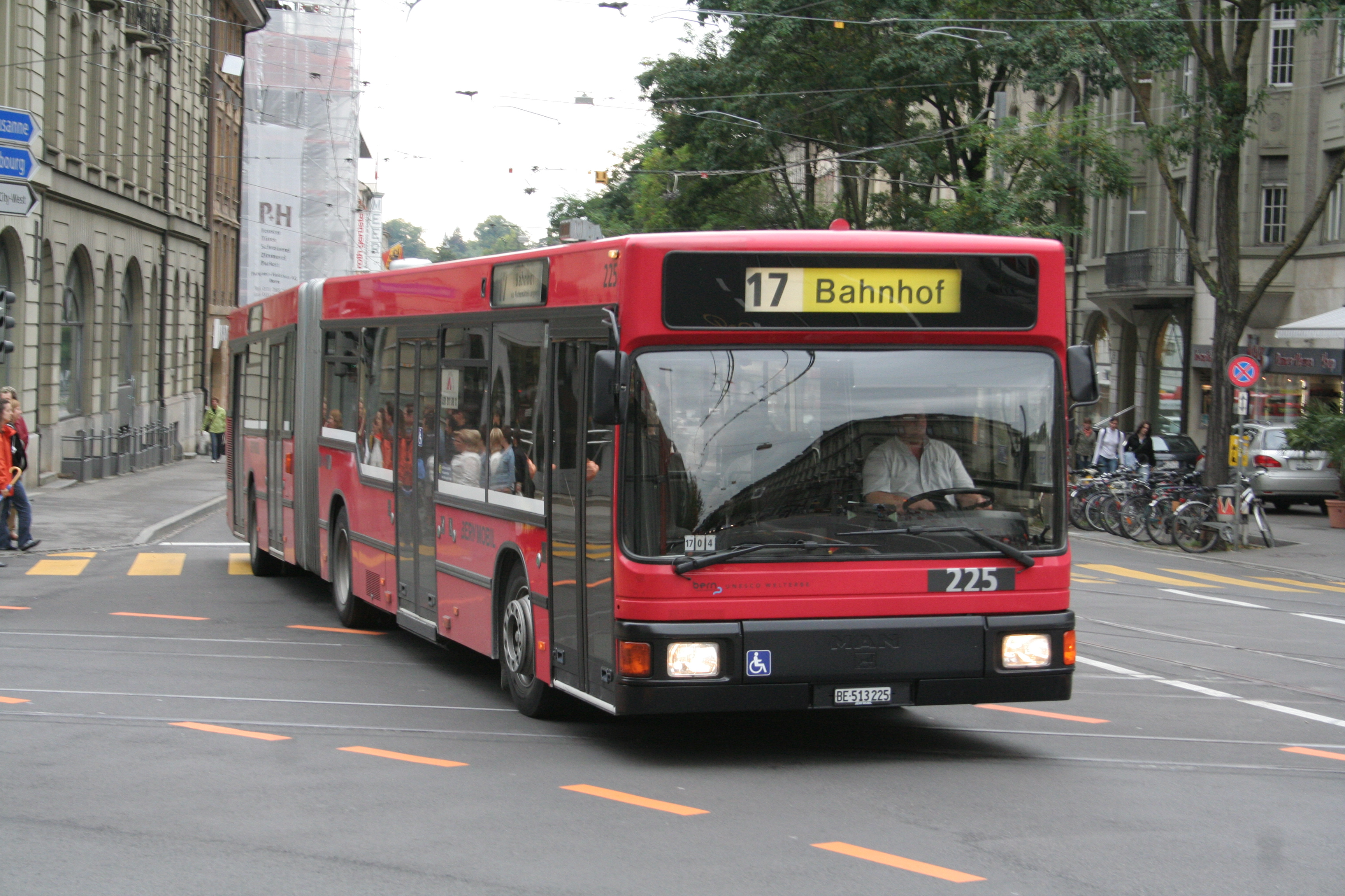 Bern mobil MAN NG272 (#225) in Bern, Switzerland. Built 1995.